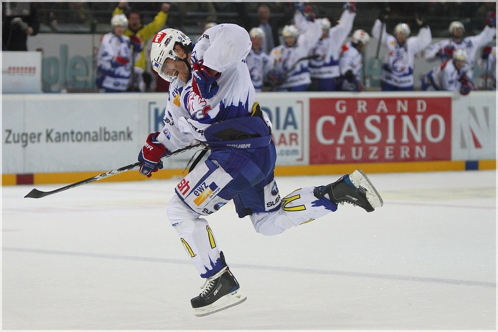 Severin Blindenbacher after scoring the winning OT goal, EV Zug vs ZSC Lions, 15th October 2011